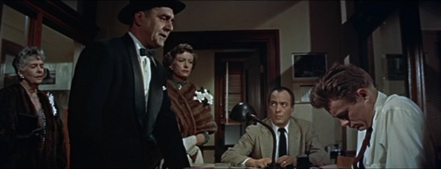 Cropped screenshot of Virginia Brissac, Jim Backus, Ann Doran, Edward Platt and James Dean in the trailer for the film Rebel Without a Cause